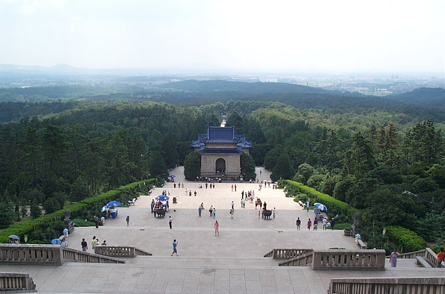 Summit of Sun Yat-sen Mausoleum, looking down